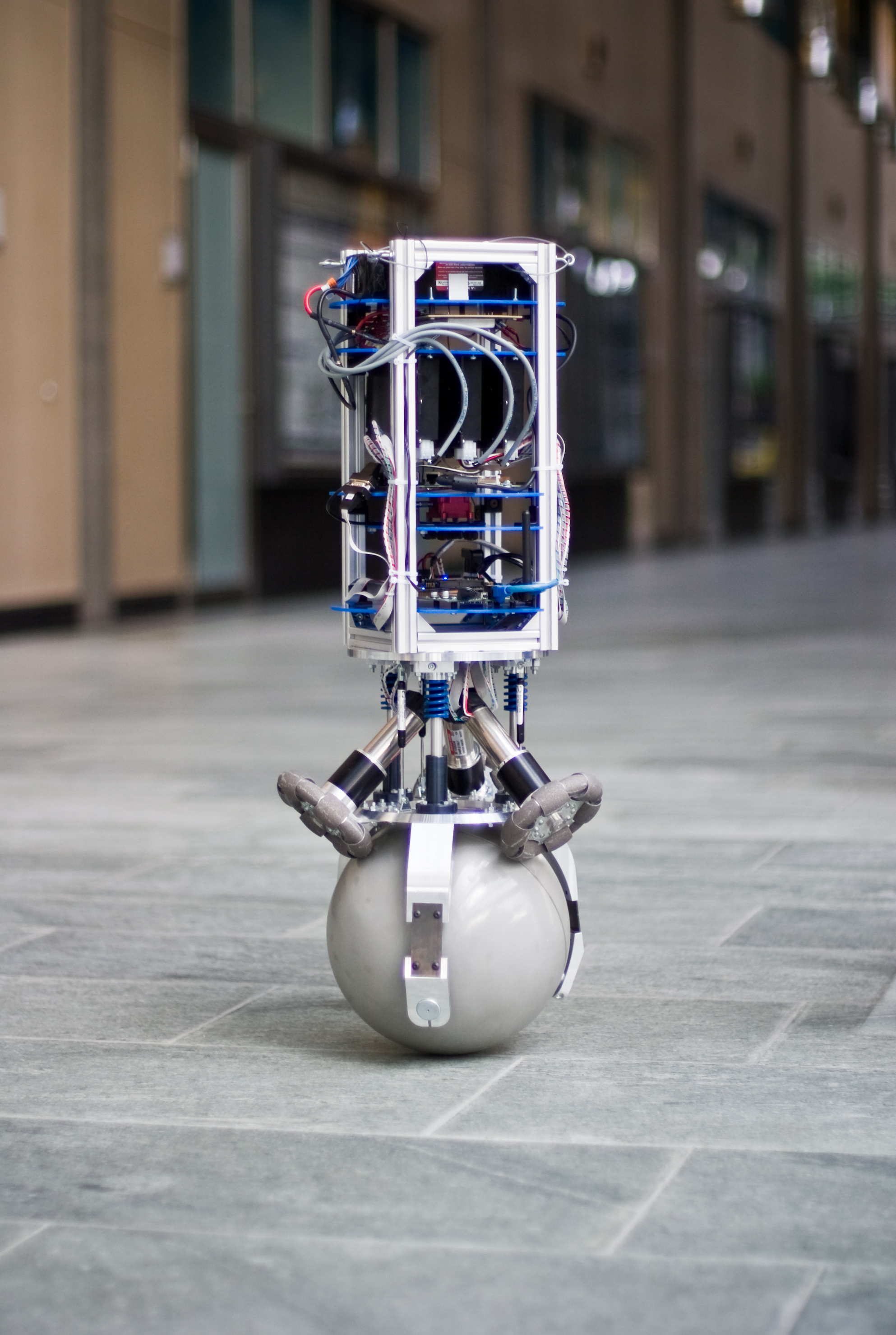 Ballbot Rezero without casing as a general example for Ballbots in a neutral position and static environment.